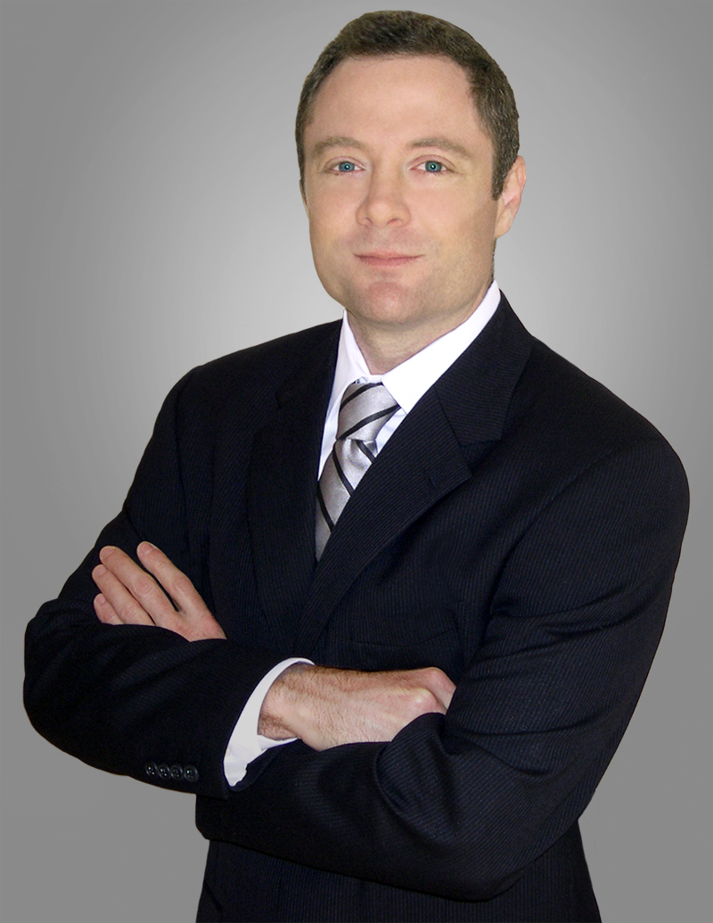 Kerim Gattás Asfura (born in San Pedro Sula, Honduras) received his Ph.D. degree in organic chemistry from the University of Miami.